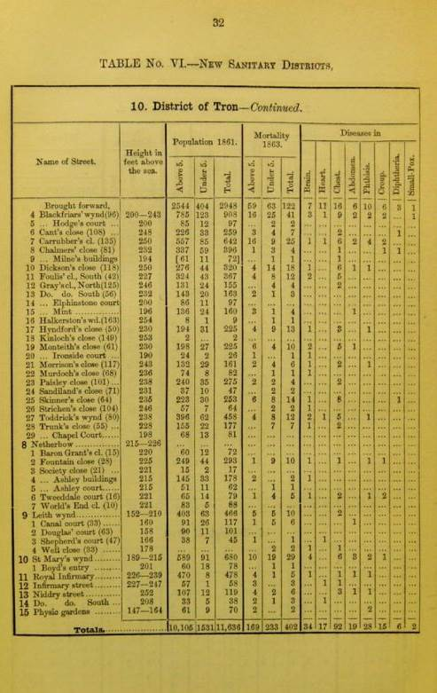 An extract from Henry Littlejohn's "Report on the sanitary condition of the City of Edinburgh", 1865. The image was scanned from the original publication.